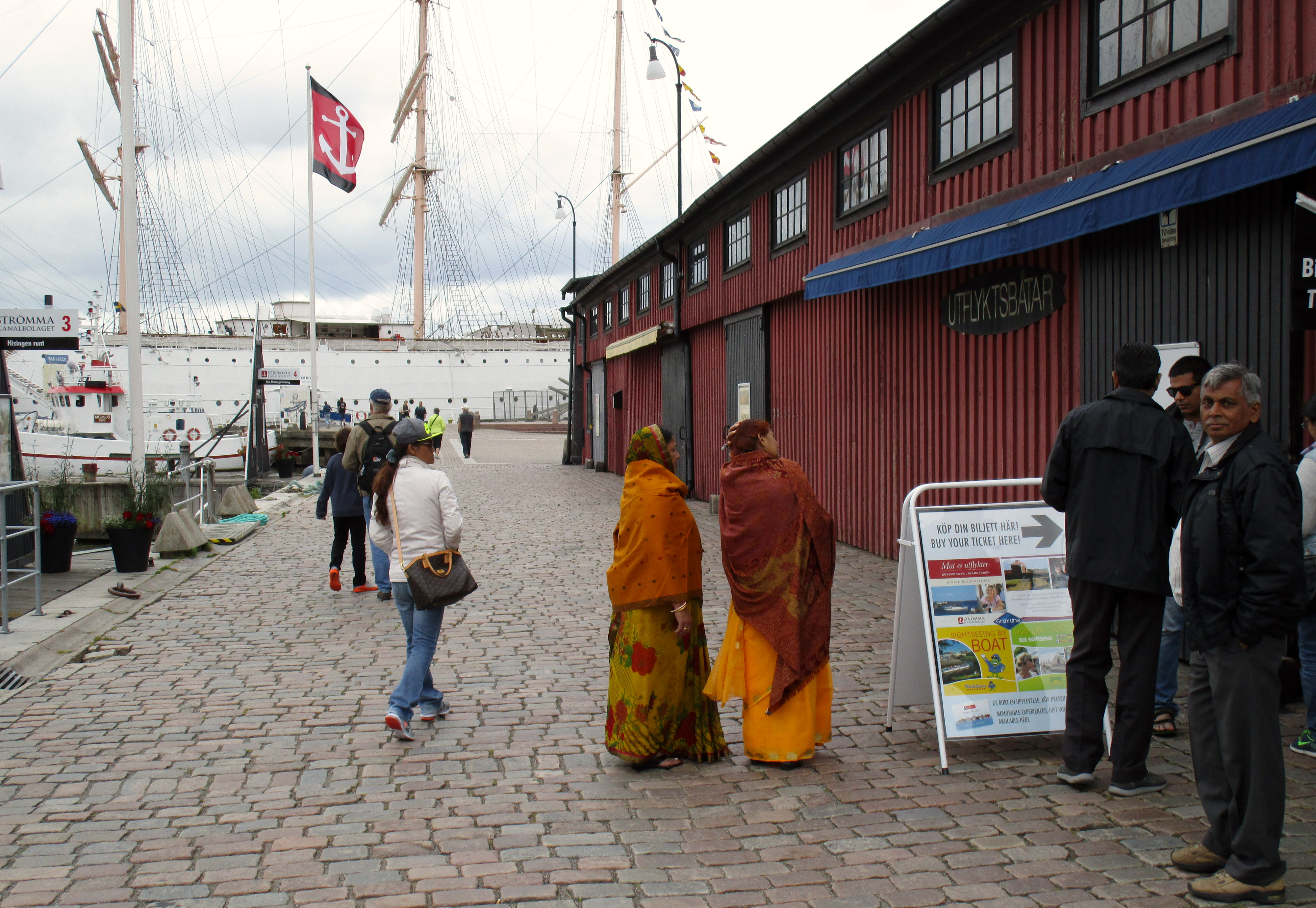 The west part of the Lilla Bommen Square, Gothenburg, Sweden